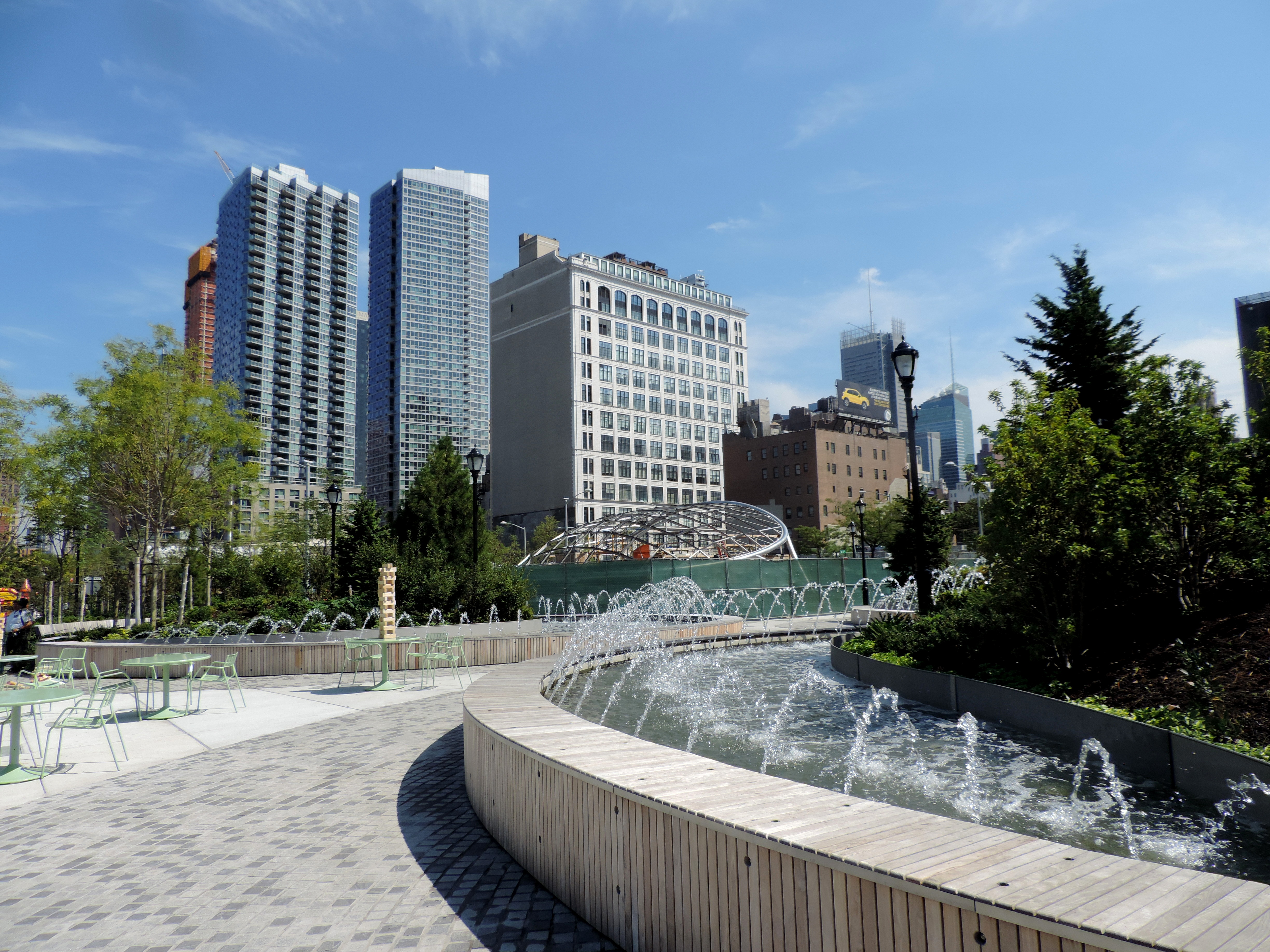 Looking northeast at park fountain in foreground; 36th St buildings in background.